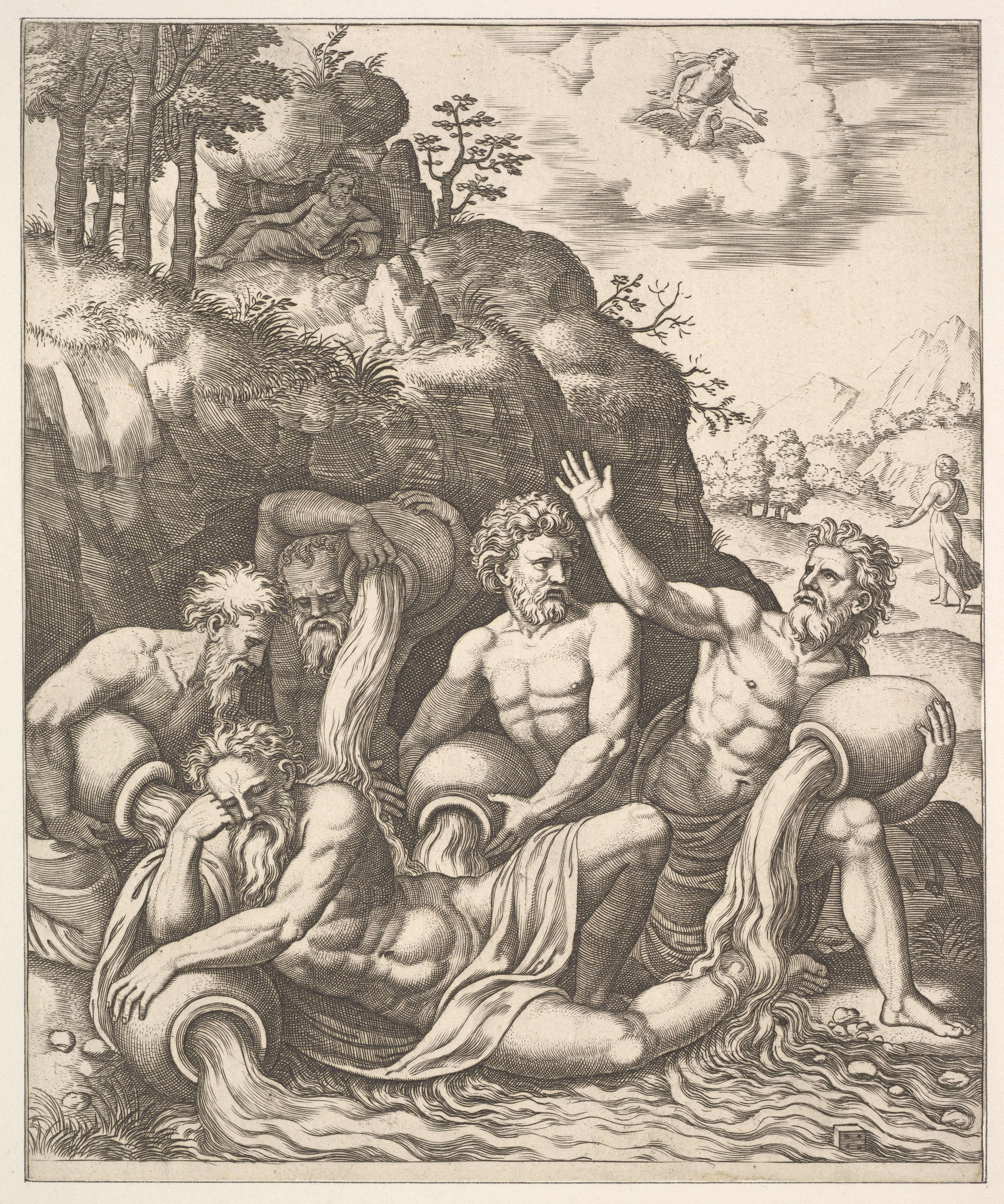 Print; Prints